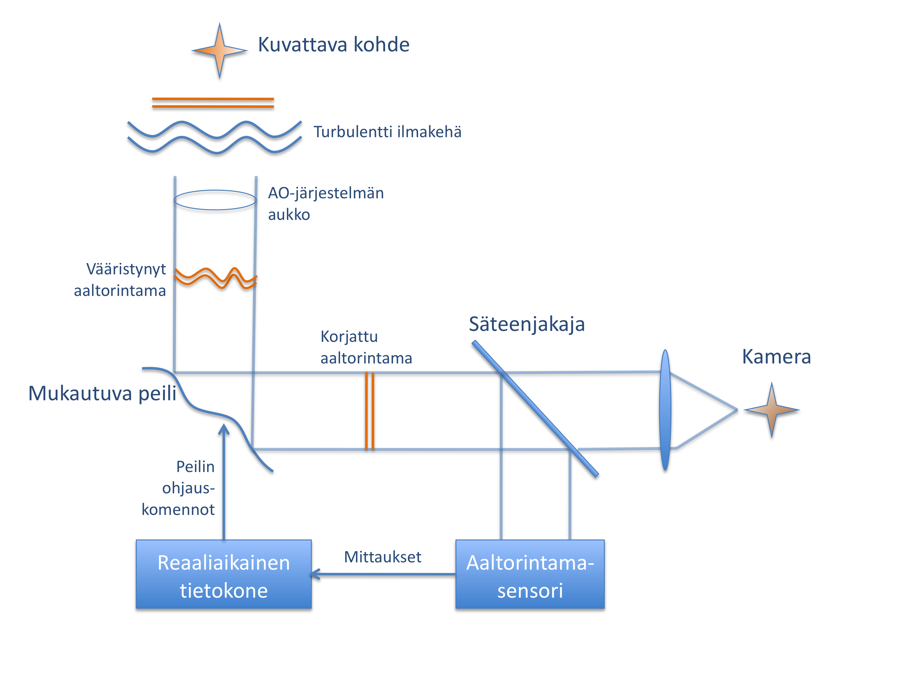 Concept of adaptive optics.